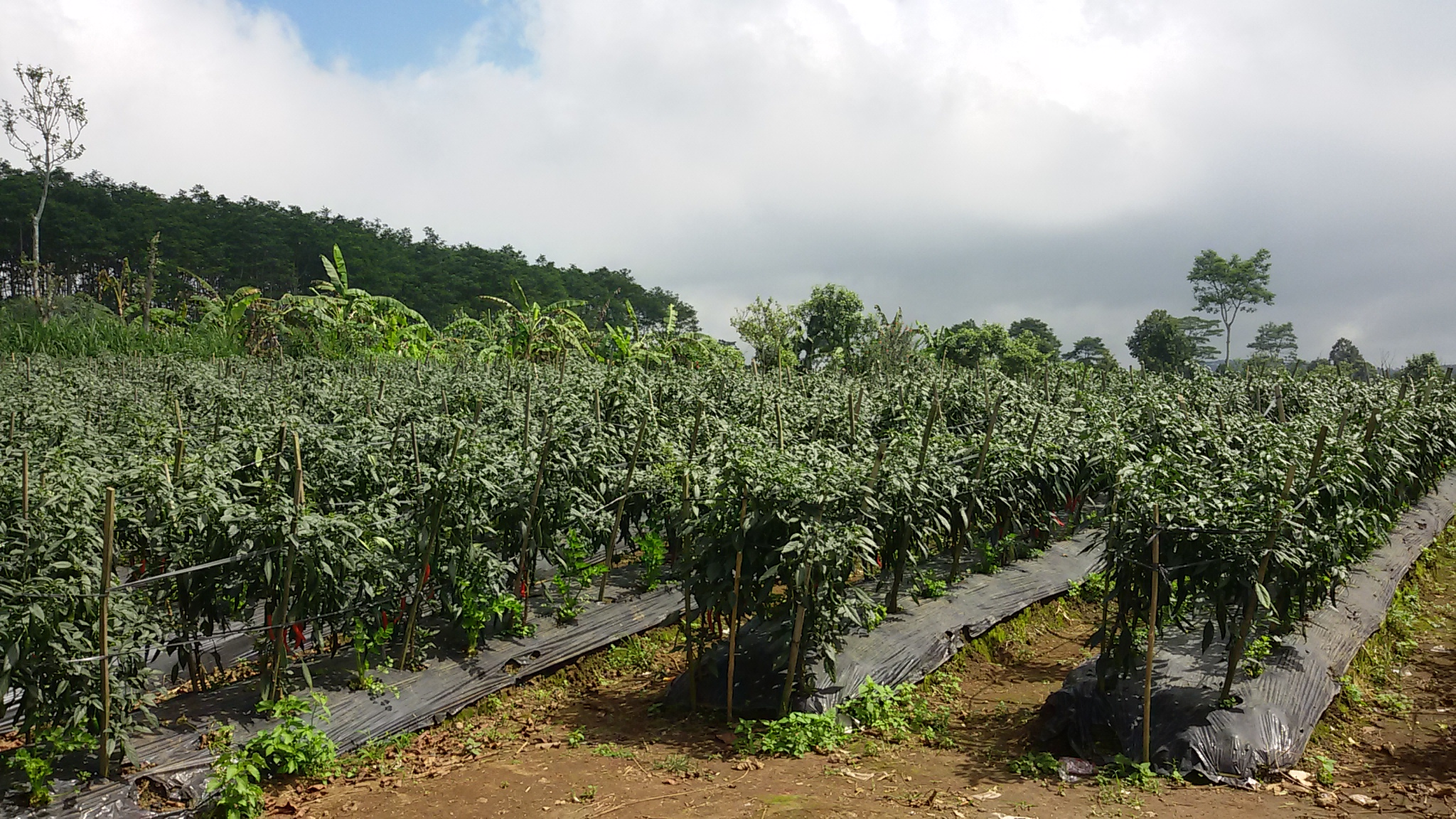 Chilli plantation at Bedugul, Bali